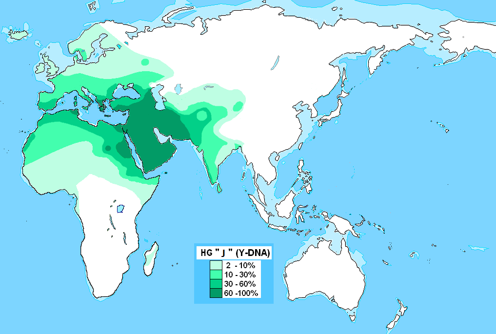 This map shows the average distribution of Y-chromosome haplogroup J.